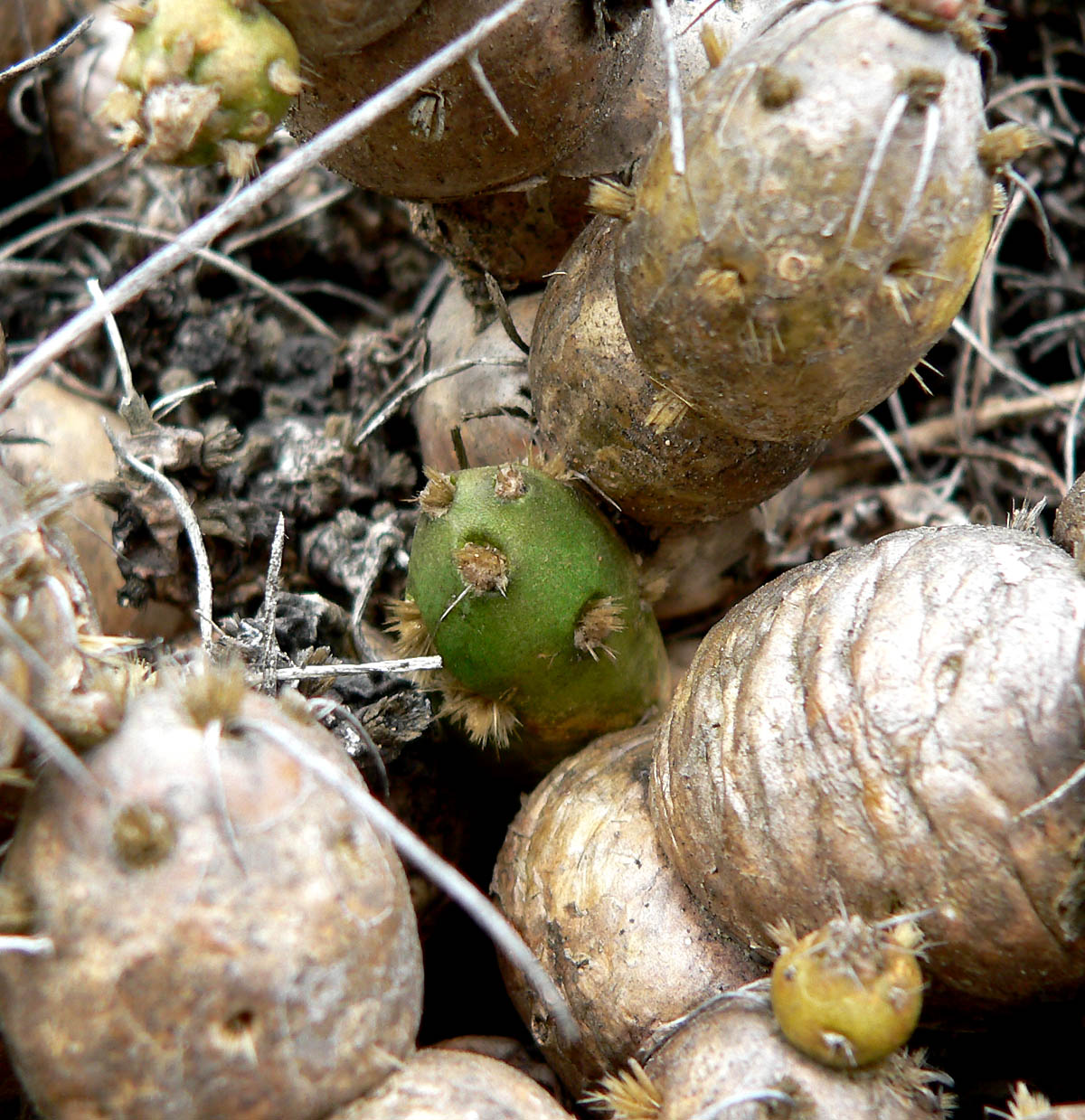 Photo of Maihueniopsis boliviana at the University of California Botanical Garden